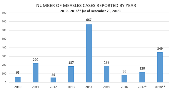 Graph showing the trend of measles cases